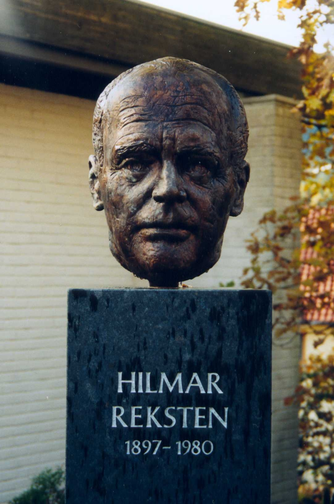 Bust of Hilmar Reksten by Hugo Wathne